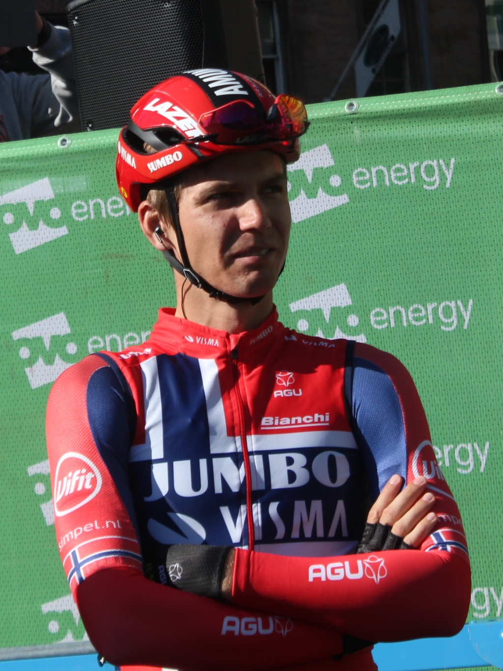 Amund Grondal Jansen wiats for the start of the 2019 Tour of Britain. The Norwegian cycling champion is riding fro the Dutch Jumbo-Visma team.